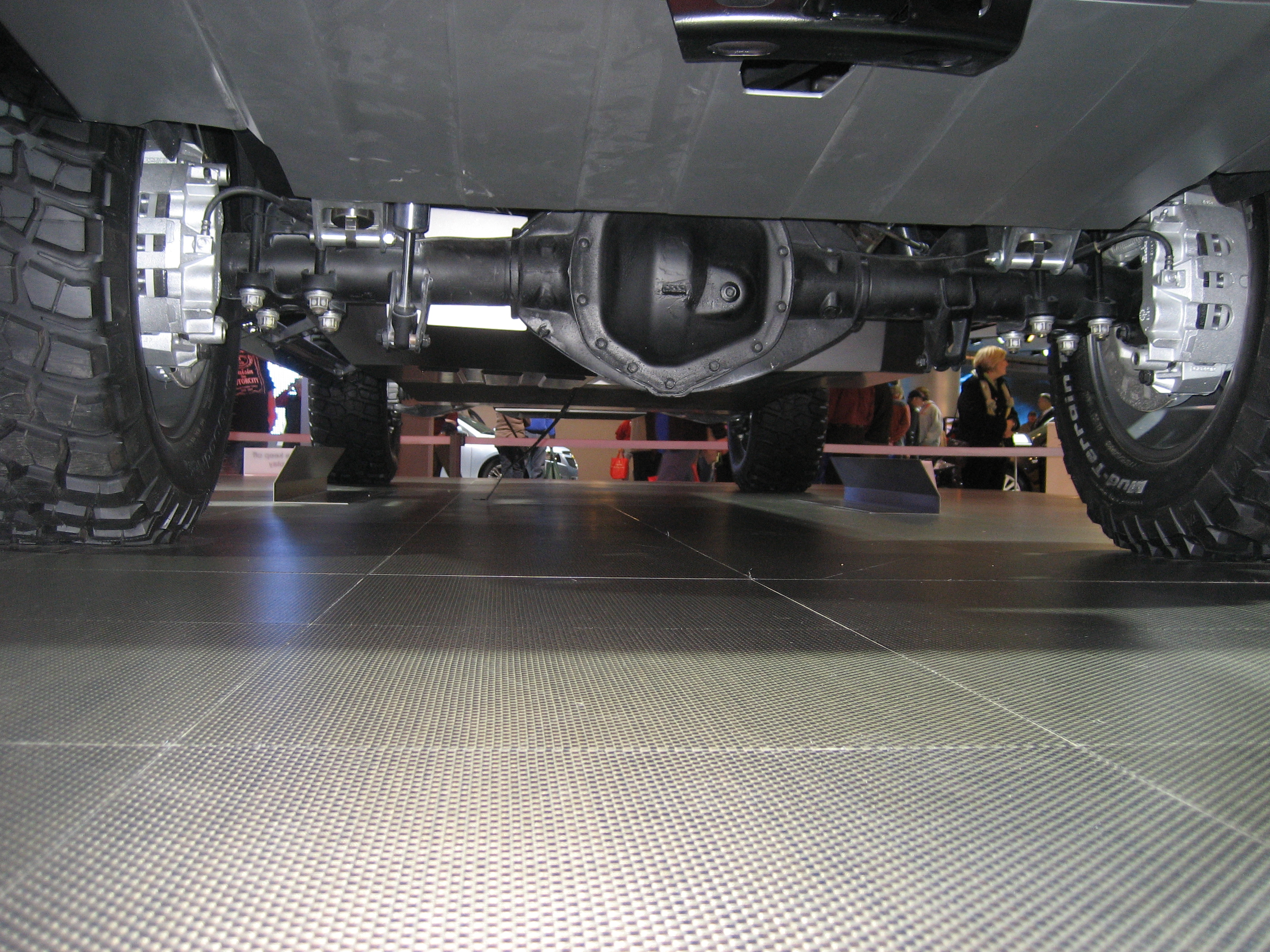 11.5 AAM axle in GMC All Terrian Concept Truck.